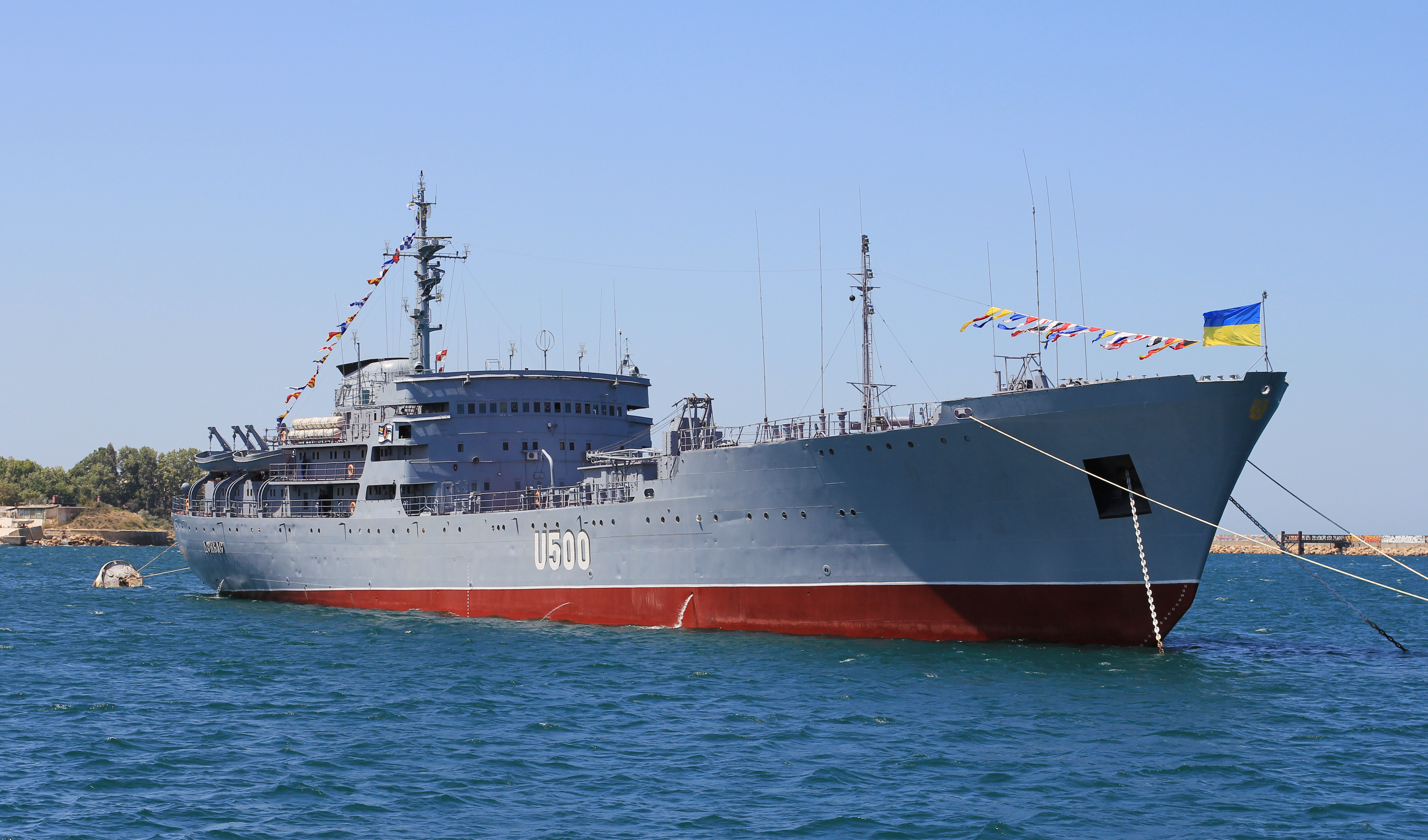 U500 "Donbas" - Amur class floating workshop (Project 304), now command ship. Navy of Ukraine. Sevastopol Bay.